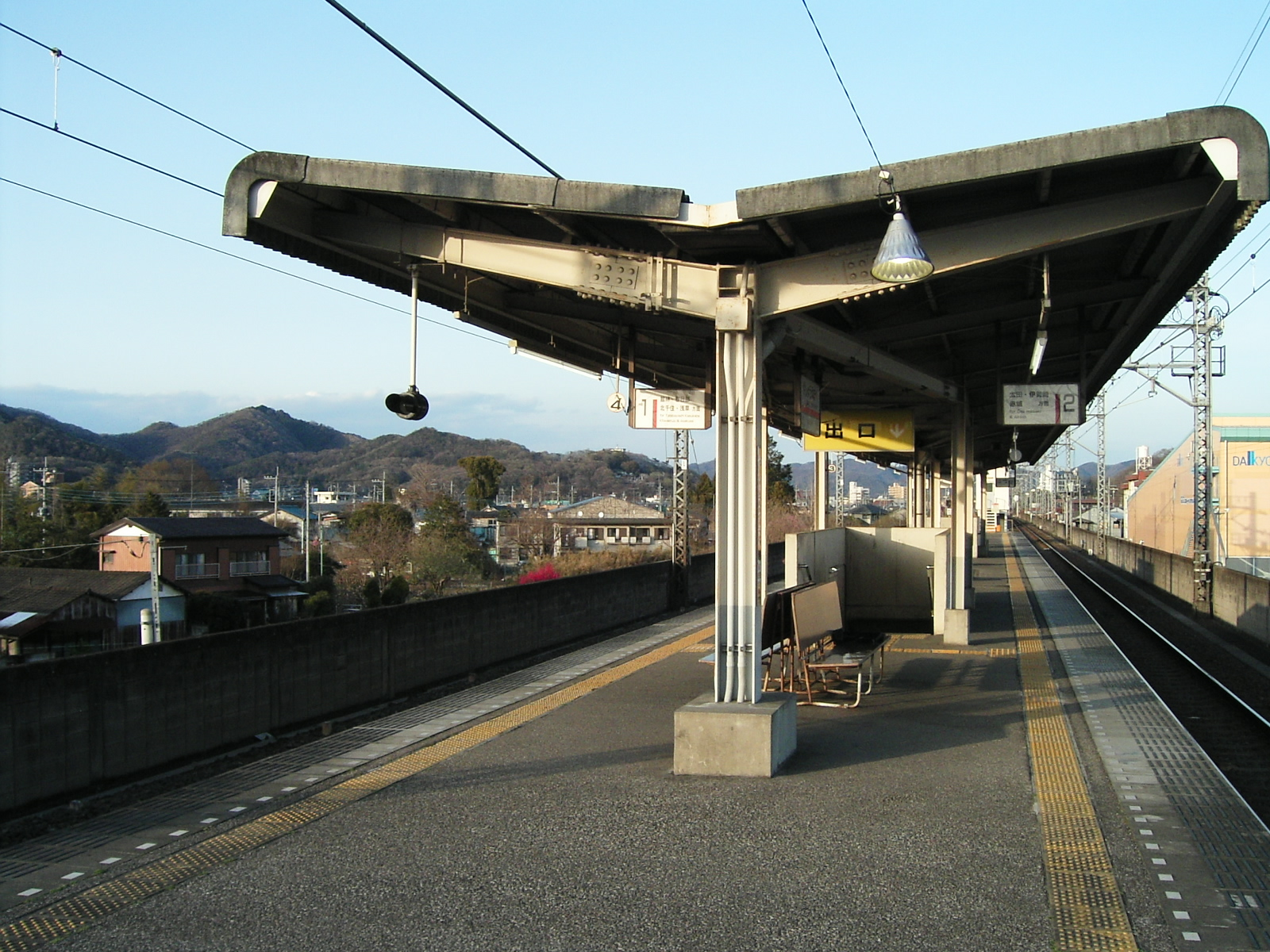 YashuYamabe station in Ashikaga city,Tochigi pref,Japan 野州山辺駅（東武伊勢崎線）